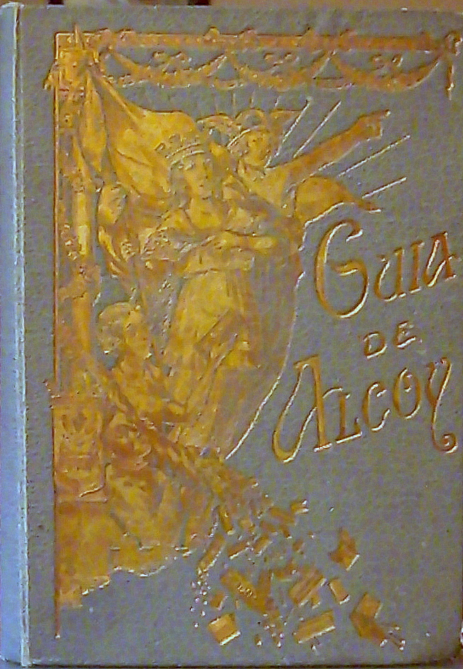 Cover of "Alcoi guide" published in 1925 by Remigio Vicedo Sanfelipe